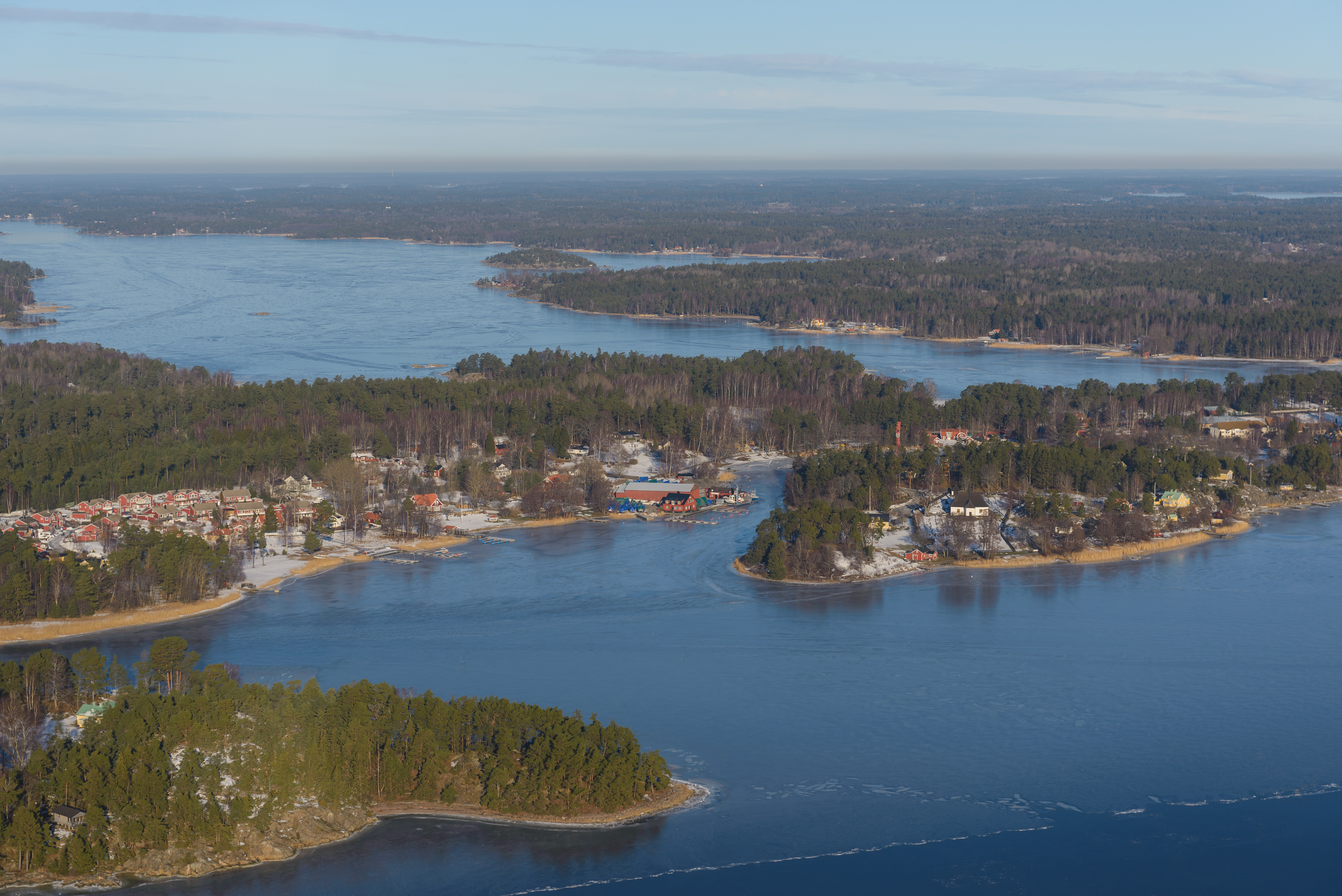 Djurö.